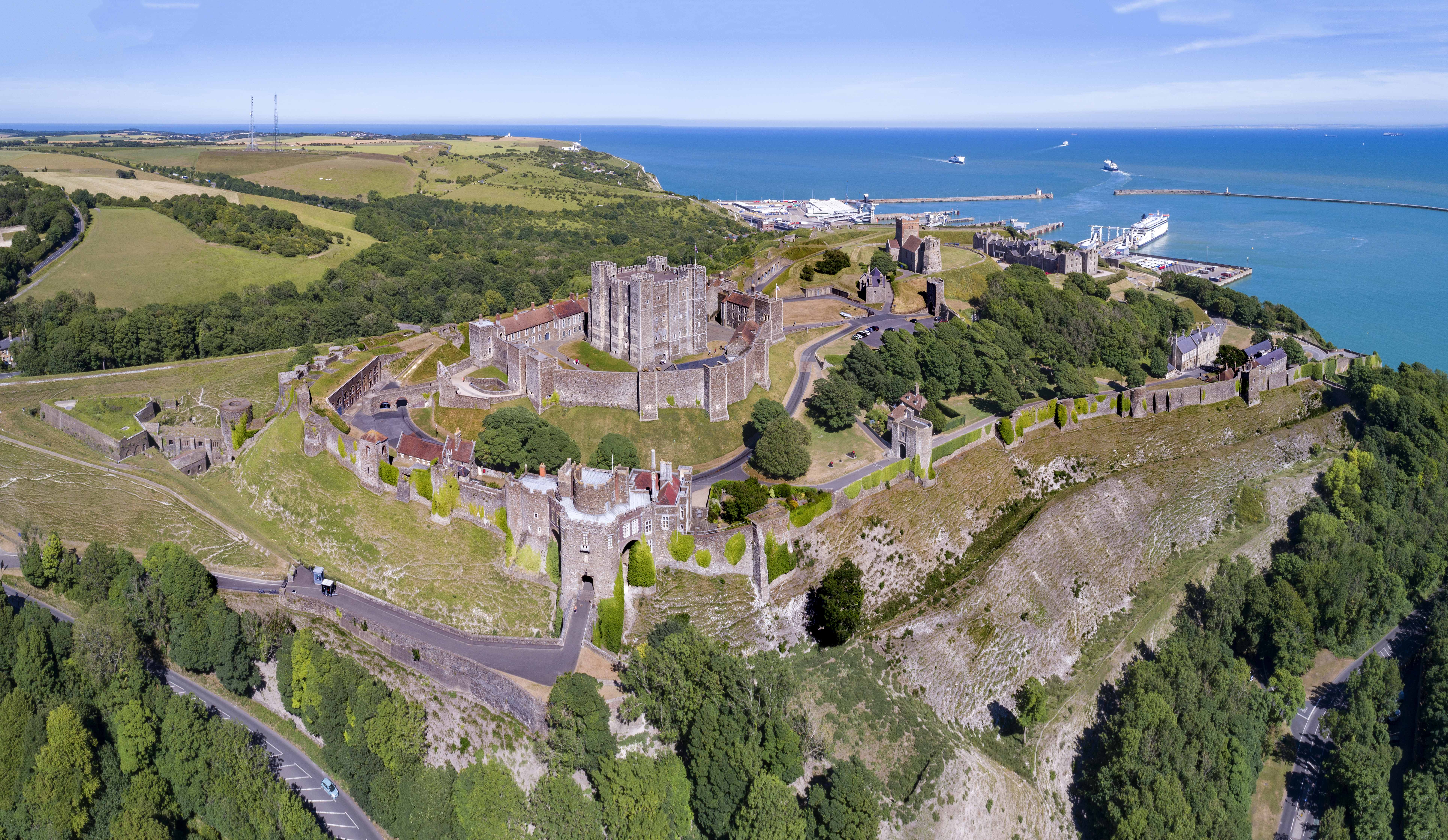 aerial panorama dover castle 2017